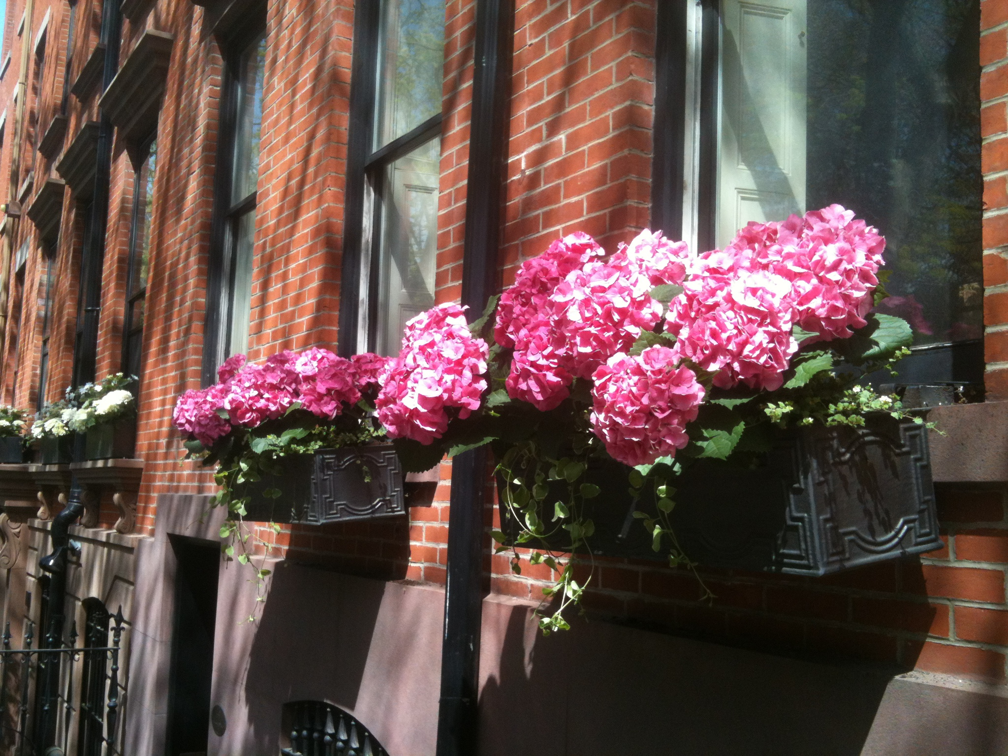 Window Boxes